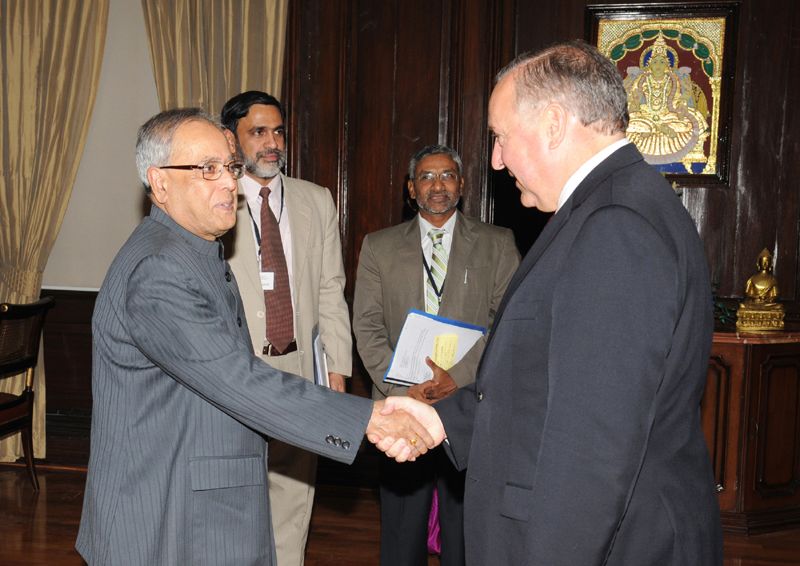 Finance Minister of Panama, Alberto Vallarino Clement, meeting the President of India, Pranab Mukherjee in New Delhi in late 2010.